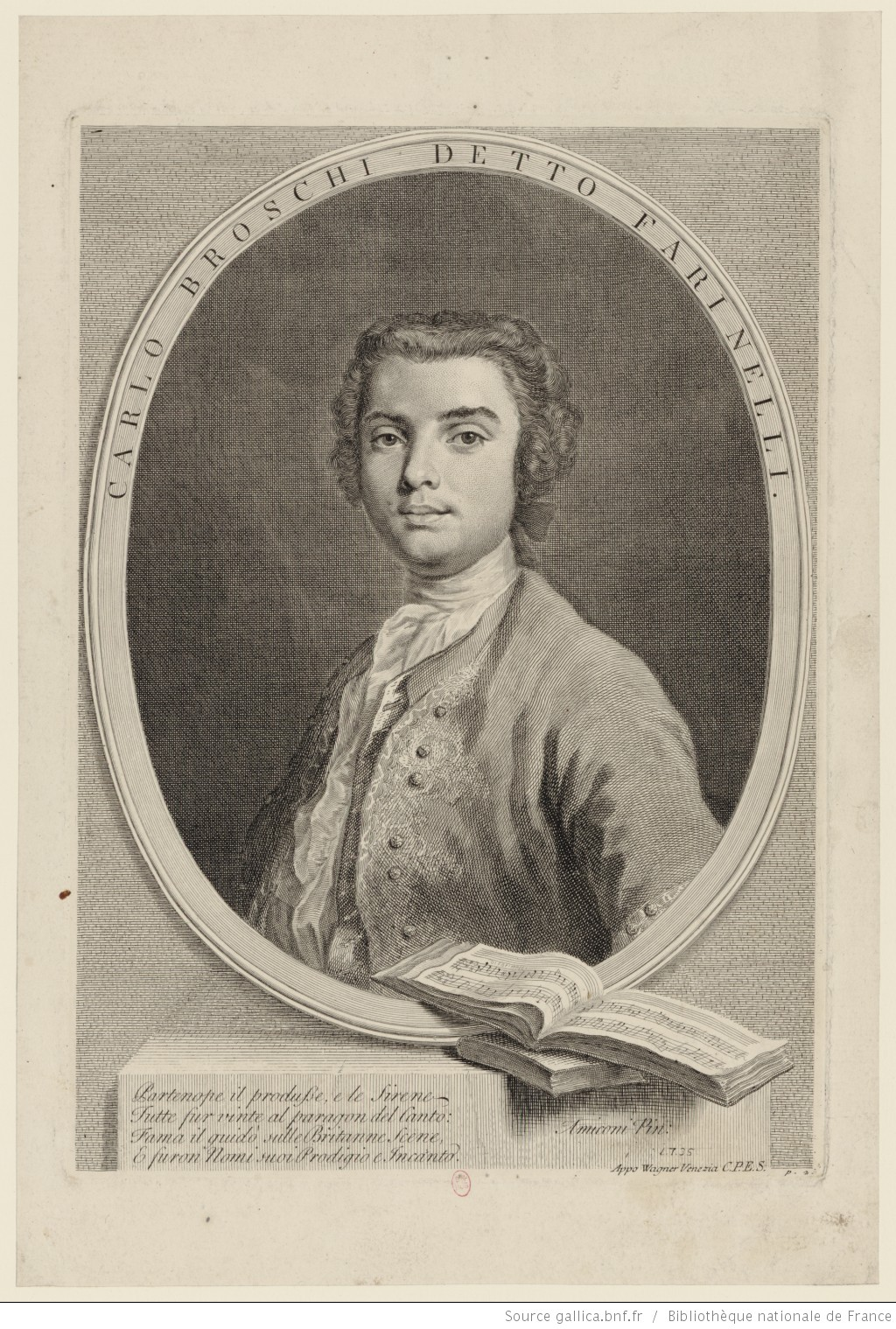 Portrait of Carlo Broschi 'Farinelli' (1705-1782)